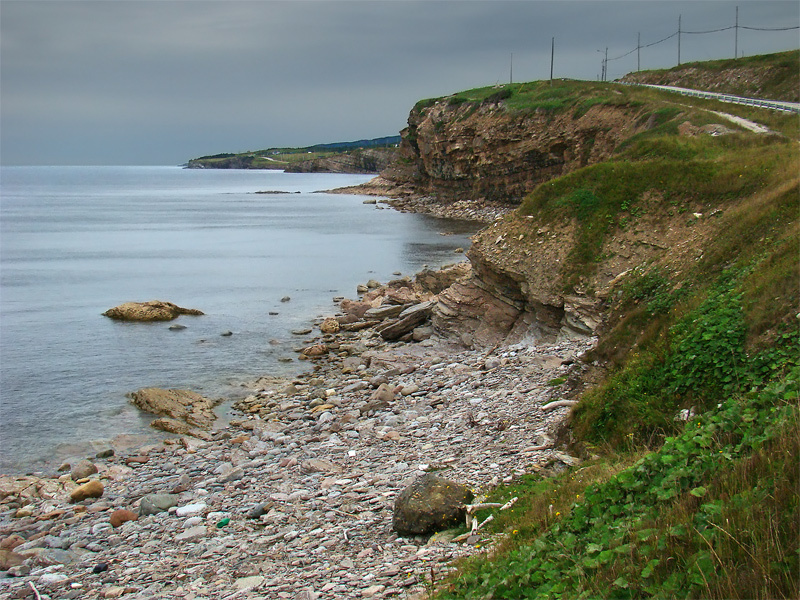 Port au Port Peninsula, Western Newfoundland, Canada. Along Route 460.